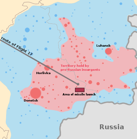 Map of the crash of Malaysia Airlines Flight 17. Black line - the route of Malaysia Airlines Flight 17 Extent of territory held by pro-Russian insurgents (at the moment of the crash) Territory previously held by the insurgents, but since retaken by the Ukrainian government Russian territory Approximate area of missile launch according to allegations of the Ukrainian Council of National Security and Defense (see the source for details) Circles are population centres - the larger the circle the larger the population. This incident map image could be recreated using vector graphics as an SVG file. This has several advantages; see Commons:Media for cleanup for more information. If an SVG form of this image is available, please upload it and afterwards replace this template with vector version available|new image name . It is recommended to name the SVG file "Malaysia Airlines Flight 17 crash site.svg" - then the template Vector version available (or Vva) does not need the new image name parameter.